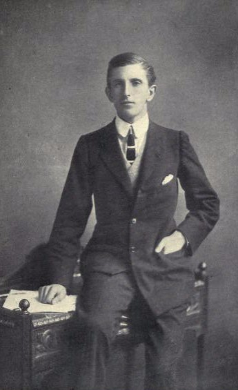 William Glynne Charles Gladstone (1885-1915) at his coming of age in 1906.